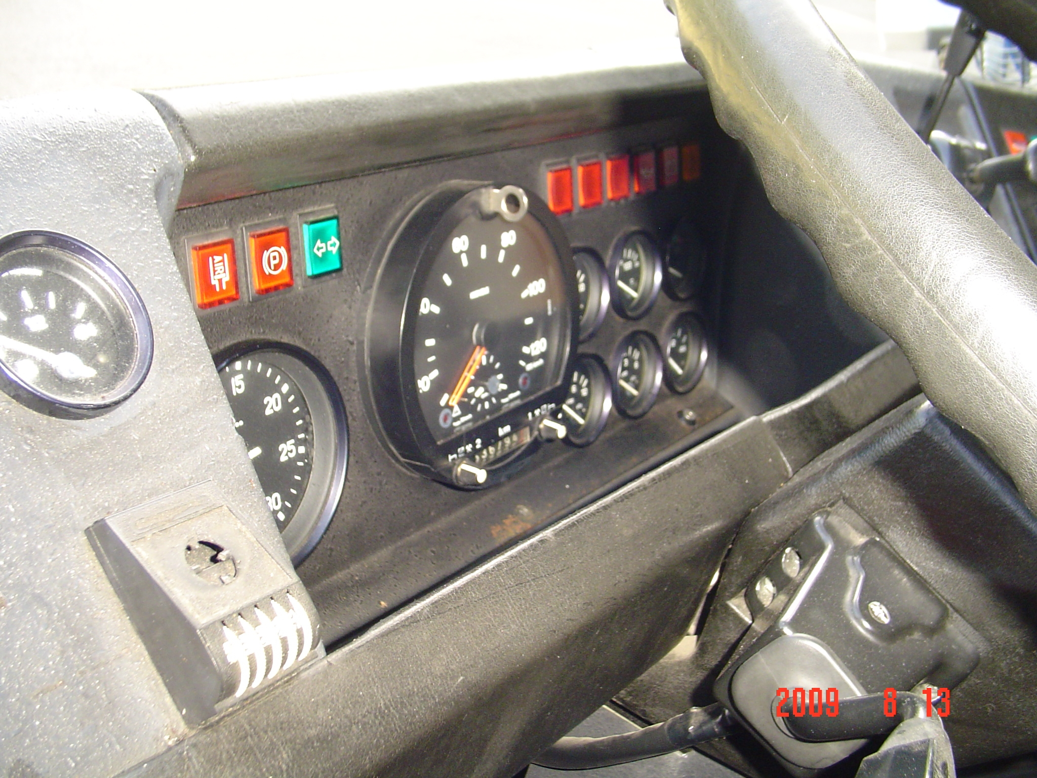 Controll panel of IKARUS 365 bus